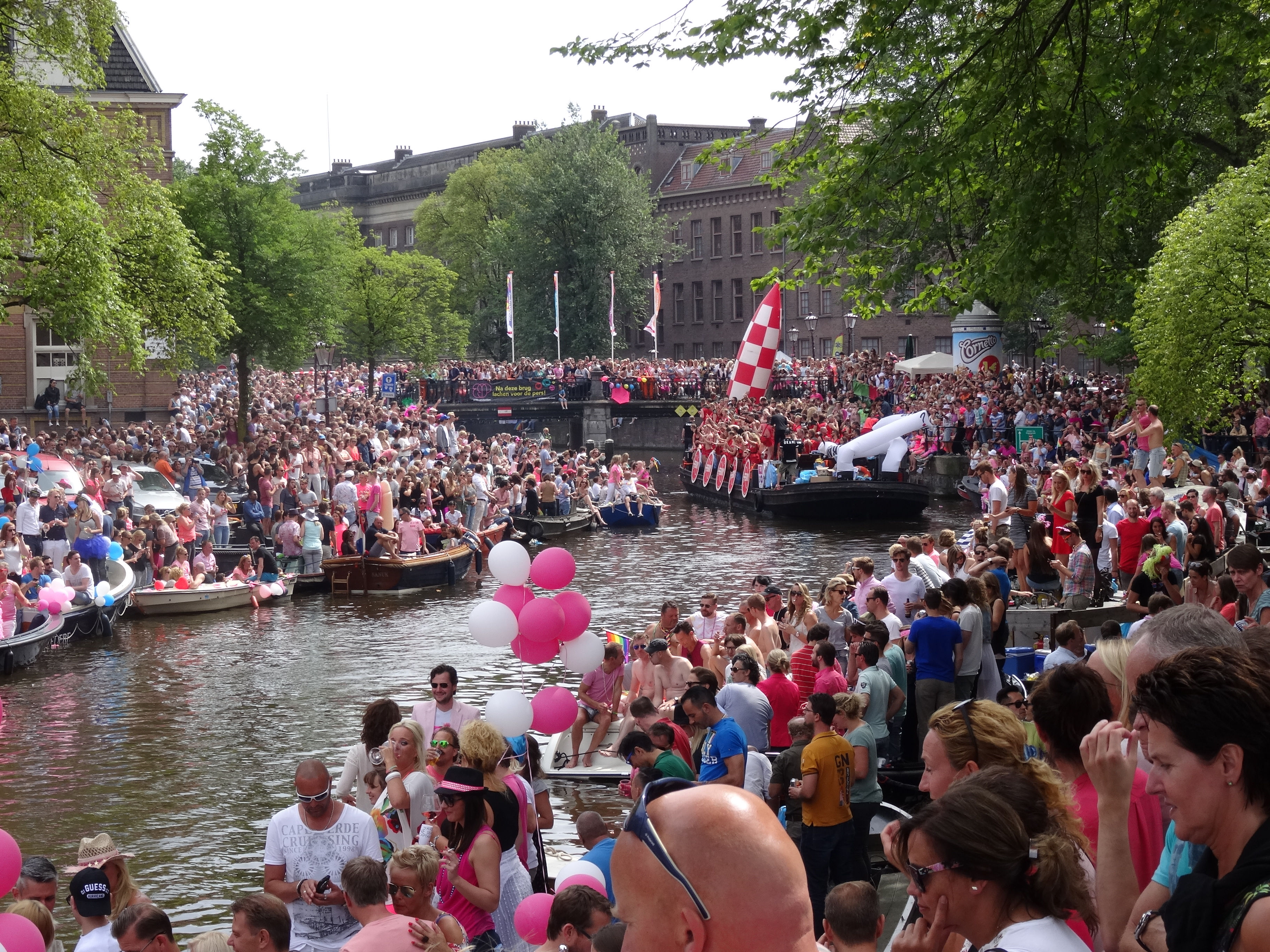 Impression of the Canal Parade at Amsterdam Gay Pride 2015